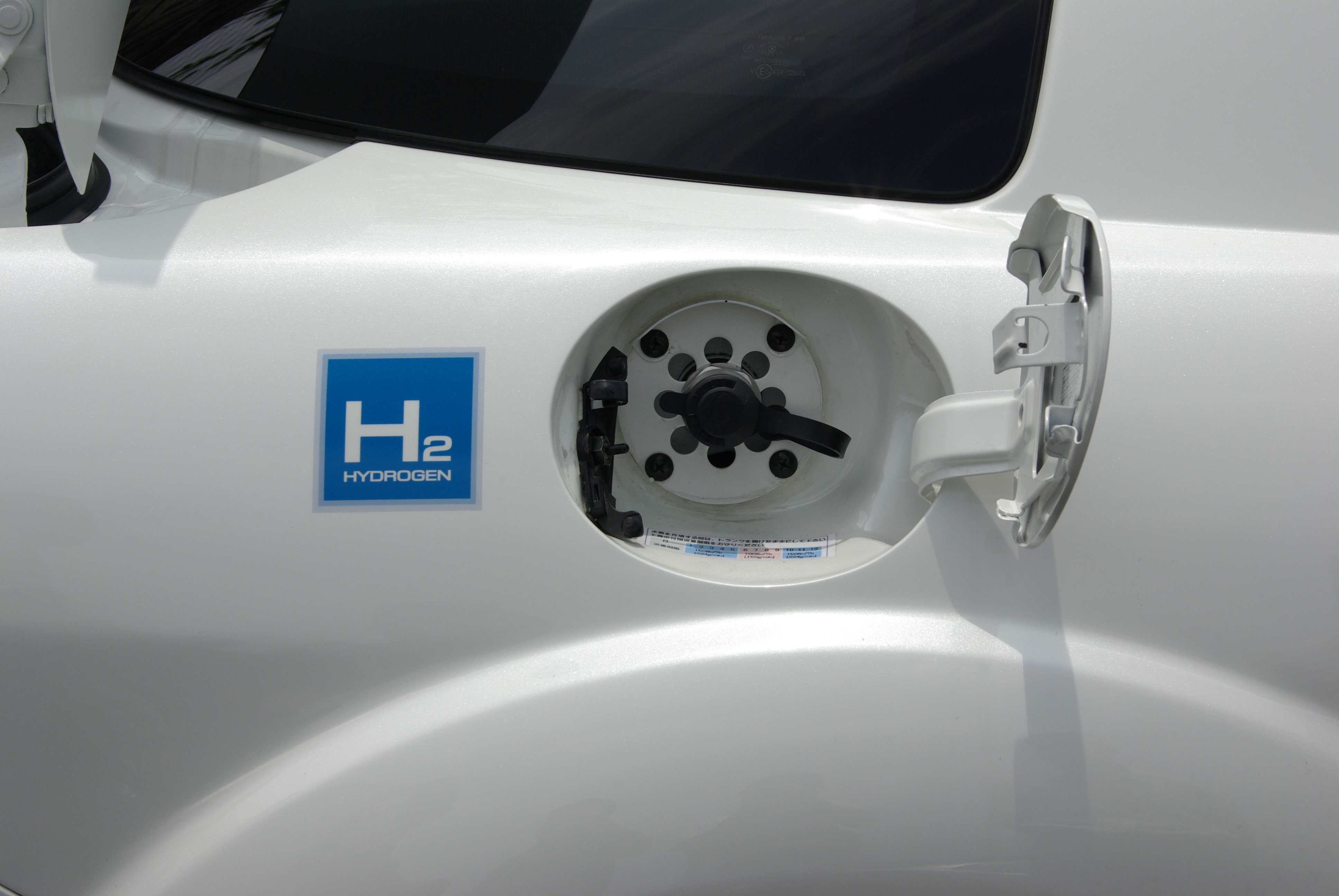 Hydrogen charging port of MAZDA RX-8 Hydrogen RE